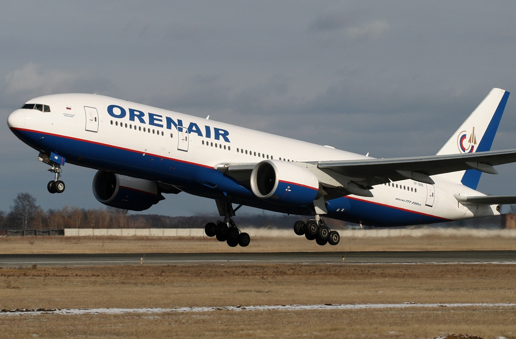 Ex F-OMAY Air Austral. New guest in Tolmachevo.